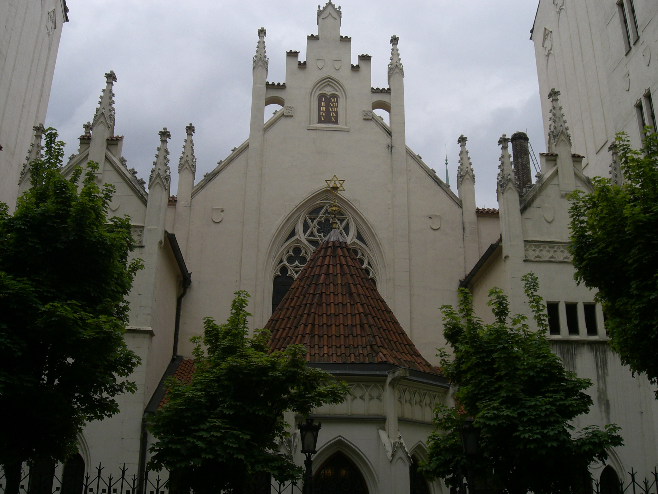 Maisel Synagogue in Prague, Czech Republic.